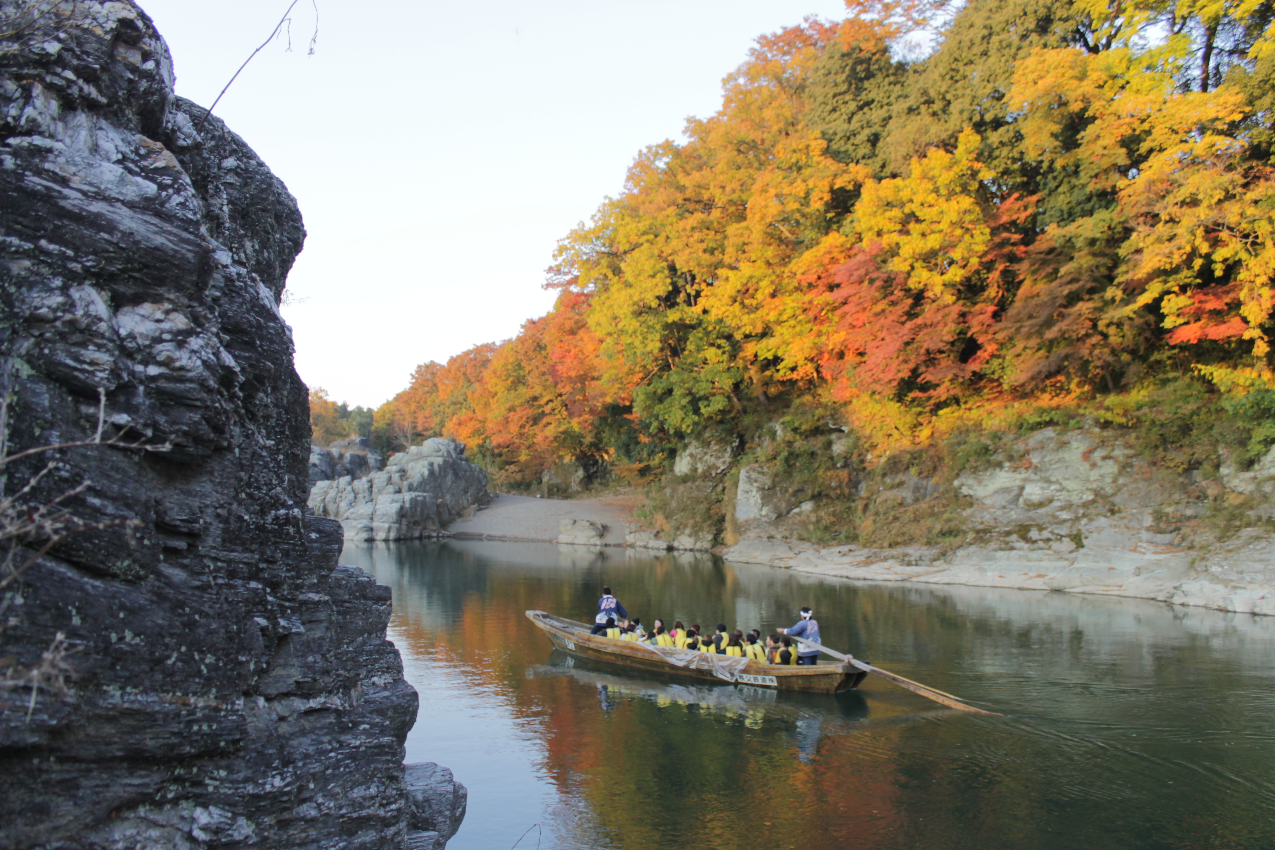 Nagatoro, Chichibu District, Saitama Prefecture 369-1305, Japan